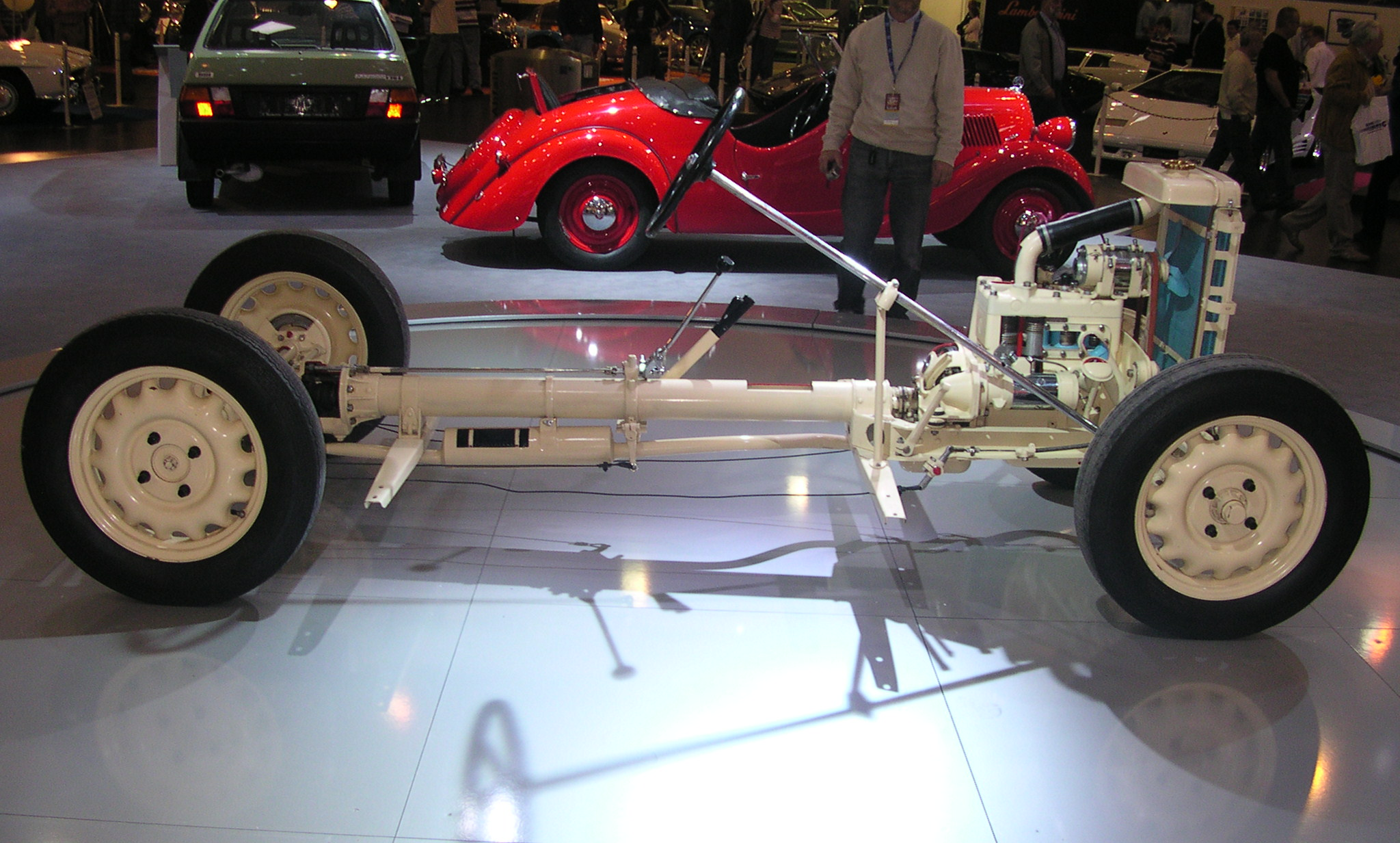 Chassis of Škoda 420 Popular (1935) see [1]